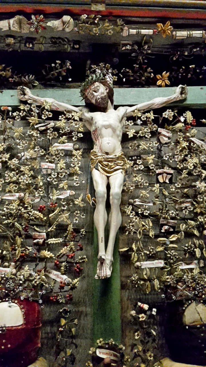 Detail of the cruzifix of the Bentlager Reliquary Shrine of 1520, a reöoqiary in the shape of a paradise garden. Hosting 132 named and further anonym relics.